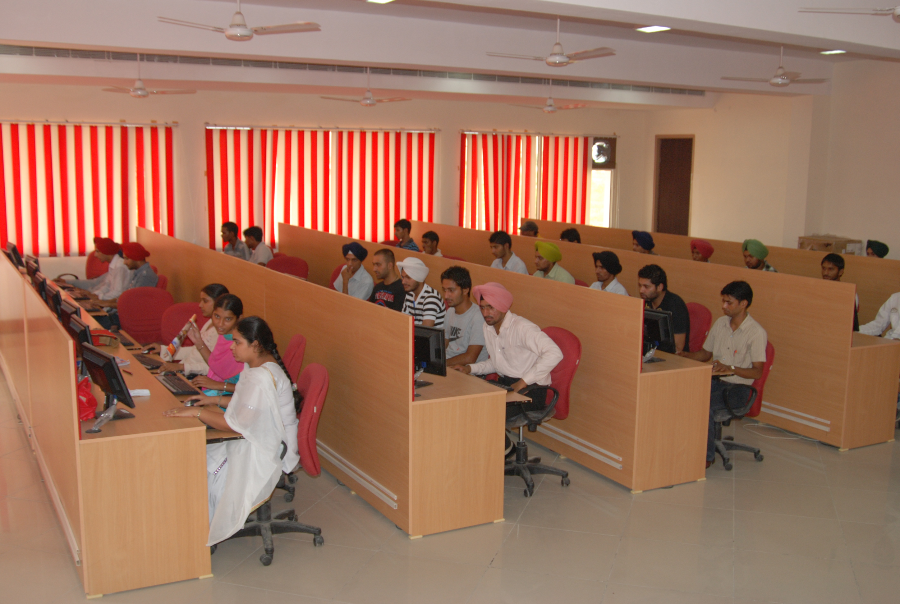 Computer Lab I GGI